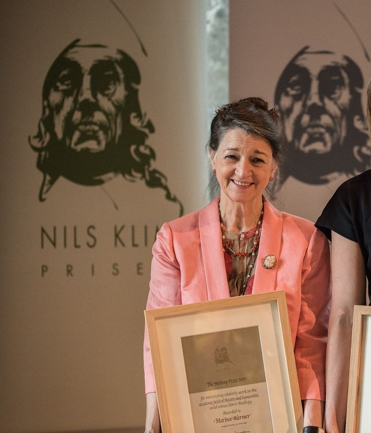 Marina Warner winner of the Holberg prize